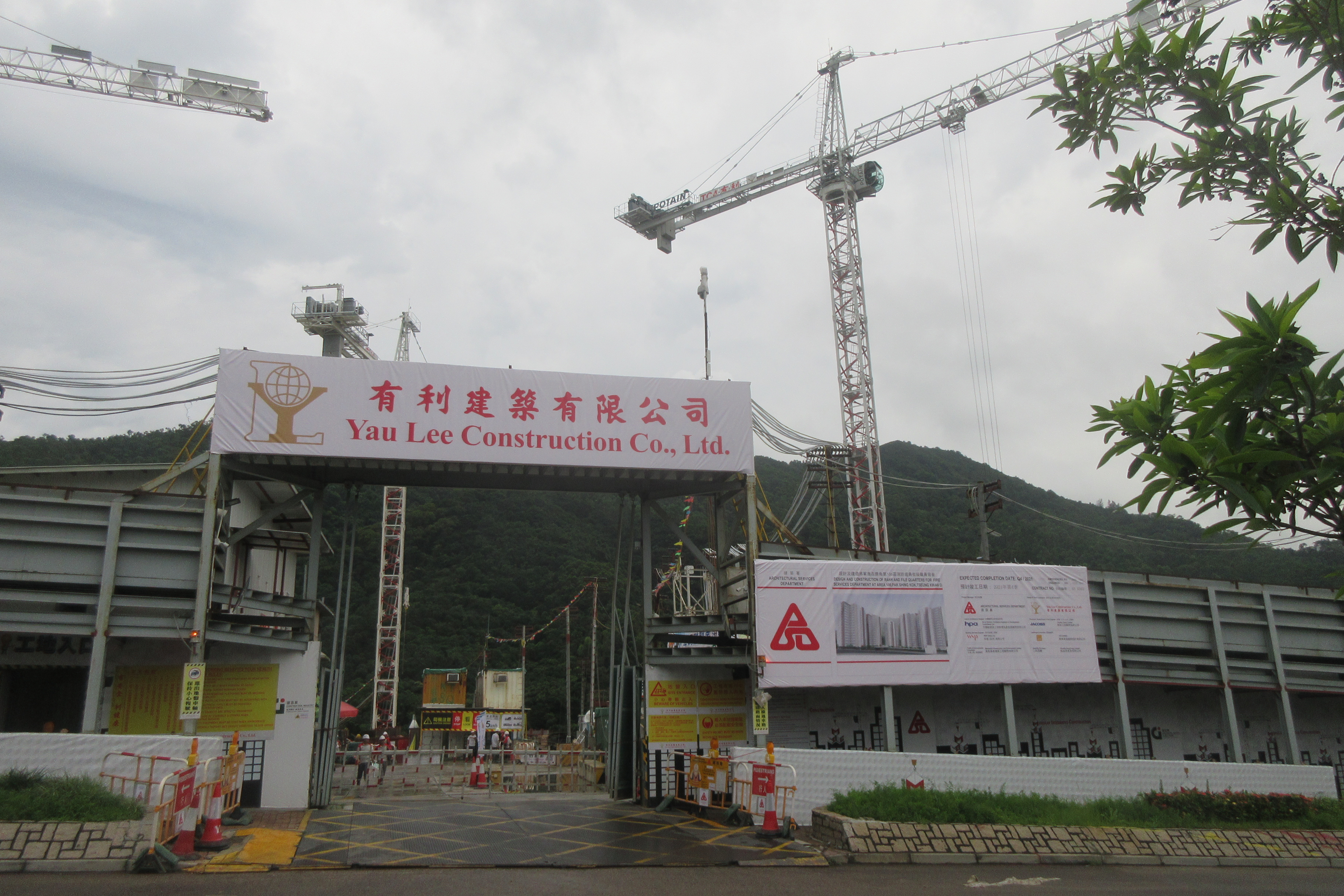 HK TKO 百勝角路 Pak Shing Kok Road 將軍澳 Tseung Kwan O in June 2019 有利建築